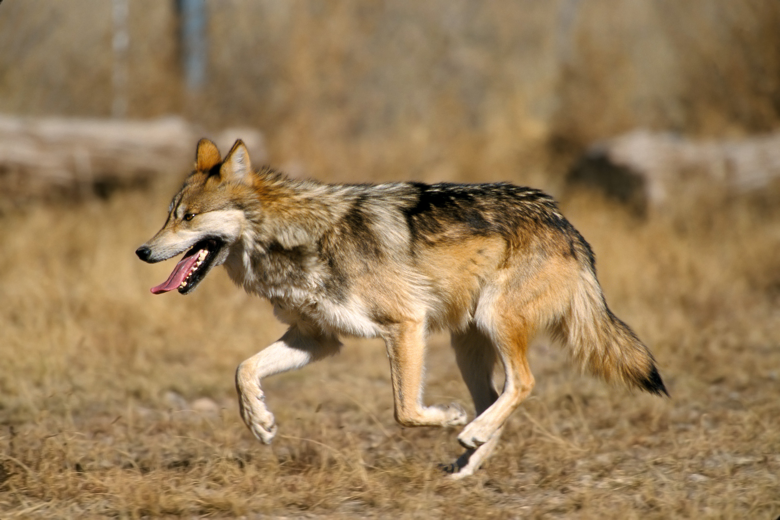 Captive Mexican Wolf at Sevilleta National Wildlife Refuge, New Mexico. Edit to reduce noise and improve contrast by Yummifruitbat.